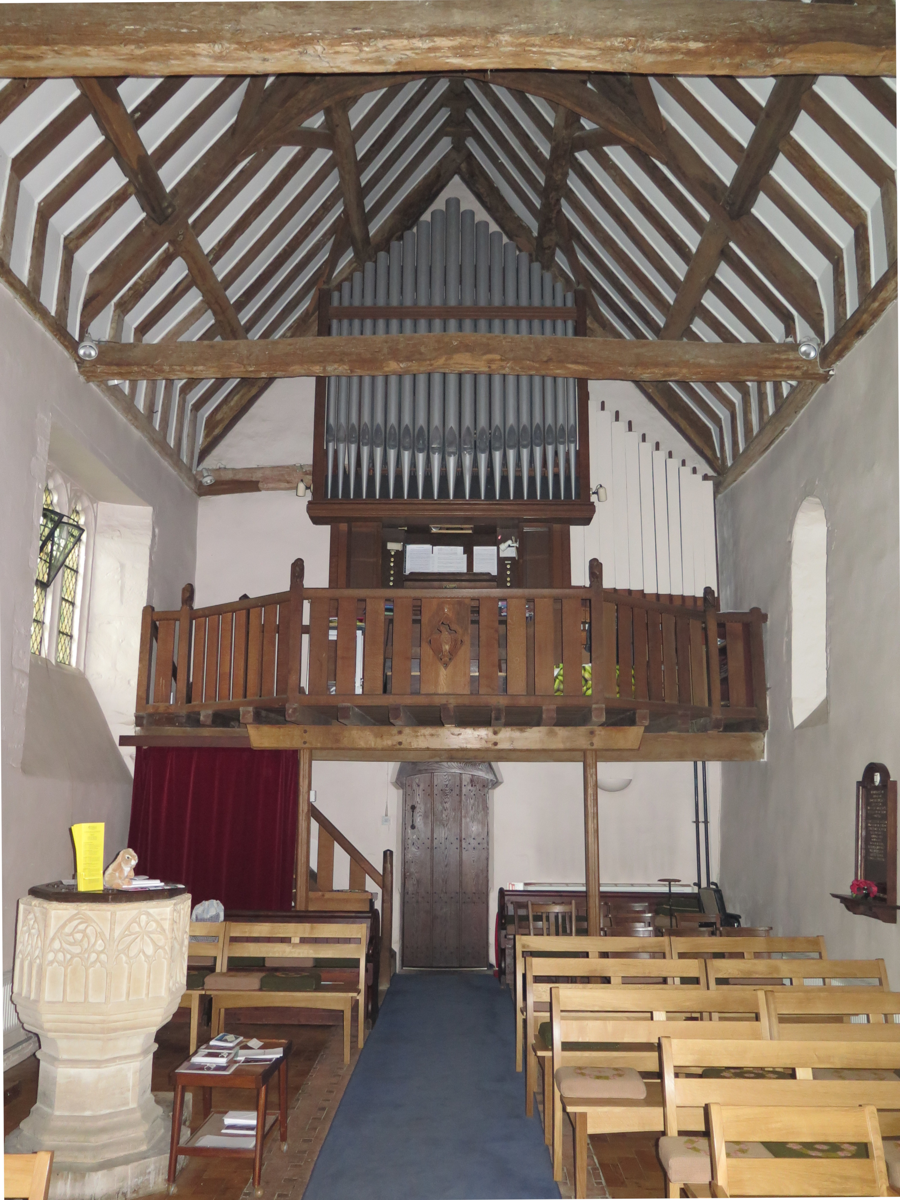 Inside the nave of St Lawrence's parish church, North Hinksey, Oxfordshire, (formerly Berkshire), looking west to the organ loft. The loft was designed by T. Lawrence Dale and built in 1931. The organ was built by PG Phipps. Also visible is a 15th-century front, a door by Ernest Gimson and a queen post roof truss.